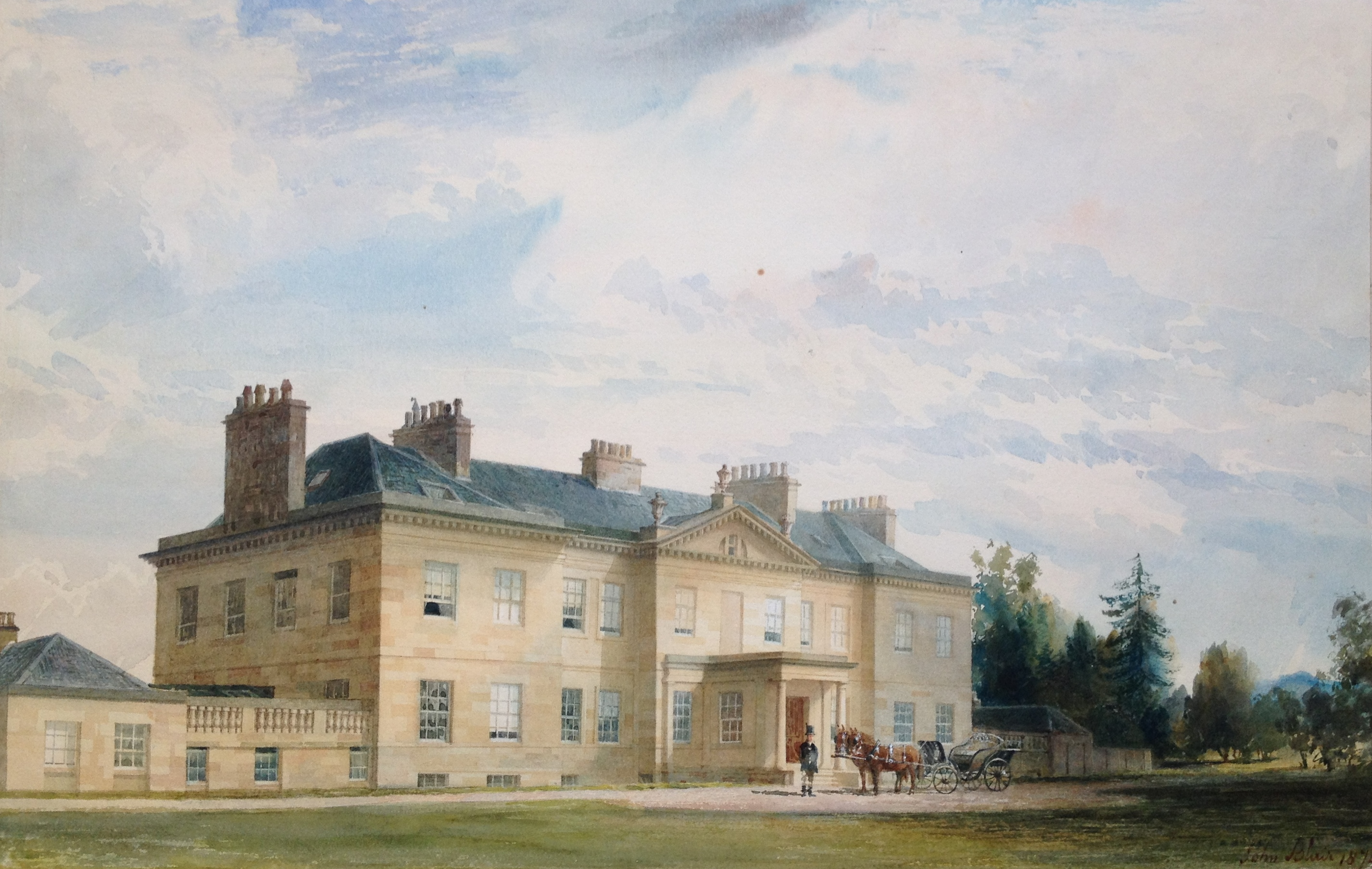 Mansion of the Lees, Berwickshire. Painted about 1869. Home of the Marjoribanks of Lees.